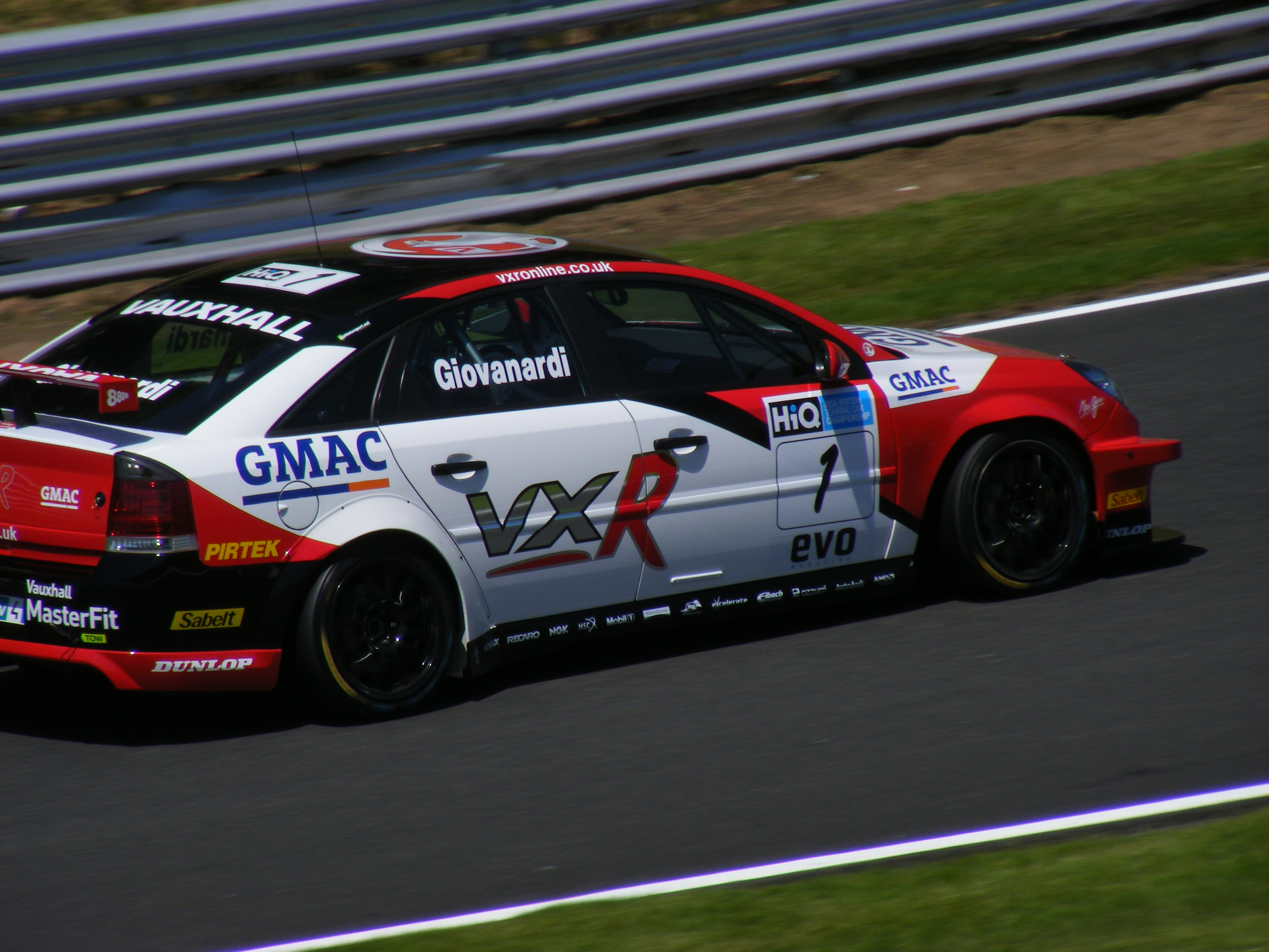 Fabrizio Giovanardi climbs Oulton Park's clay hill during a qualifying session.